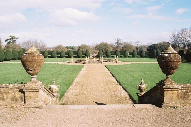 Montacute: Montacute House grounds Looking out from the east front of the house on a sunny February afternoon. Beyond the end of the rather formal garden, the grounds open up into a more wild, untended scene.